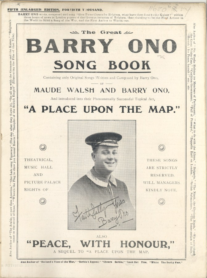 Cover of 1916 songbook, in British Library collection